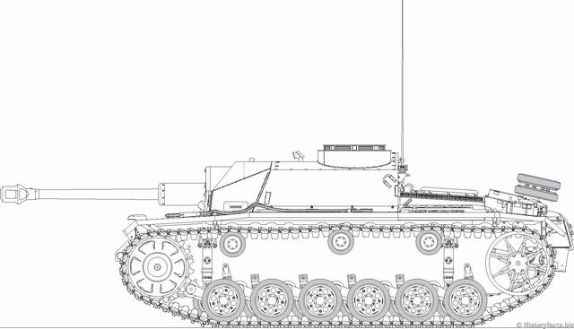 Side drawing of a Assault Gun III, Variant G (December 1942)